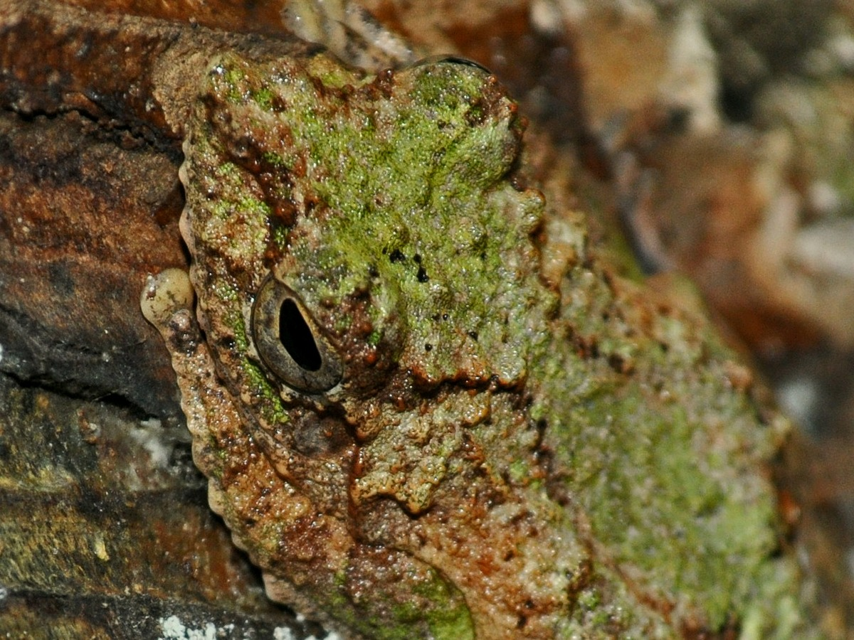 Frilled Tree-frog (Rhacophorus appendiculatus), head close-up. From Sambas, West Kalimantan, Indonesia.